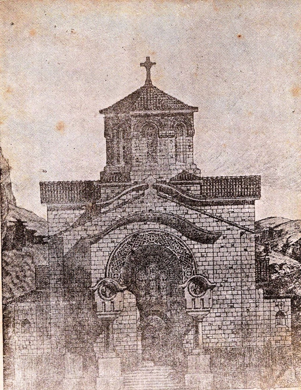 Postcard with memorial church in Krupanj in western Serbia, where is also a charnel house of the fallen soldiers in the Battle of Mackov Kamen, First World War This media file is produced by Wikipedian in Residence in Category:Wikipedian in Residence at DARM in 2016.